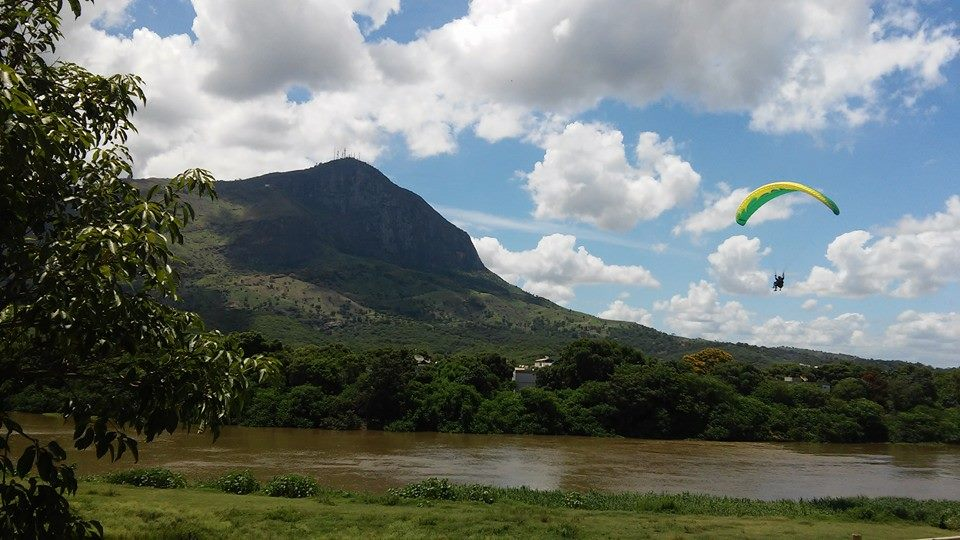 Pico Ibituruna ( Black Stone in the native language ) , with 1123 meters sea level , on the banks of the Rio Doce ( Vale do Rio Doce) in the city of Valadares / MG Governor . worldwide platform of free flight . Environmental Protection Area since 1992 , has remnants of Atlantic Forest.